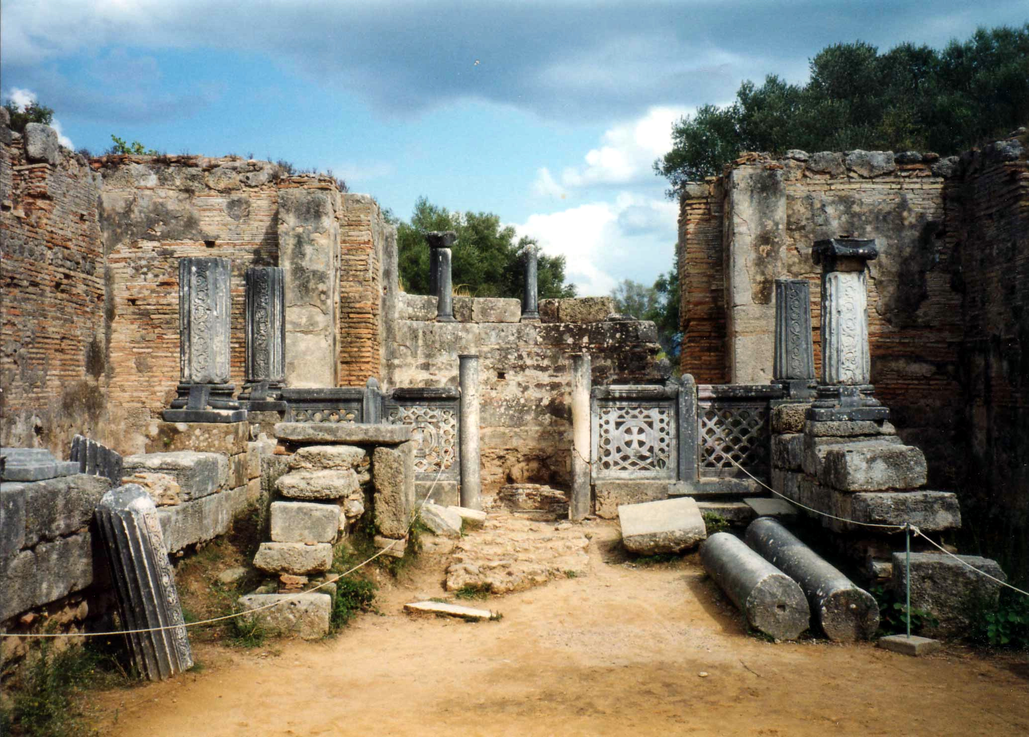 The supposed workship of Phidias at Olympia, where it is said he fashioned the cryselephantine statue of Zeus, one of the Seven Wonders of the World.